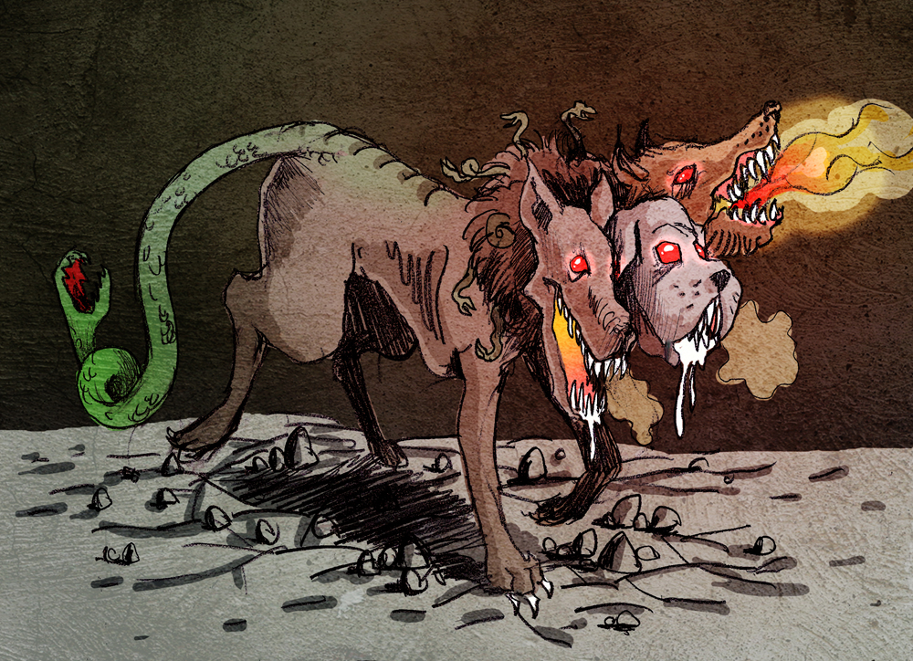 Illustration of Cerberus by Philippe Semeria.